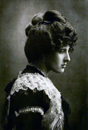 Photograph of the author, Judith Blunt-Lytton, 16th Baroness Wentworth, on page 25.